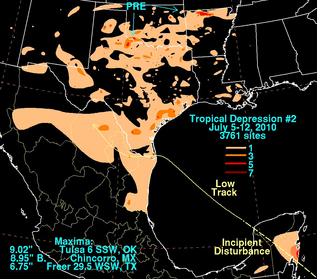 Storm total rainfall map of Tropical Depression Two during July 2010.